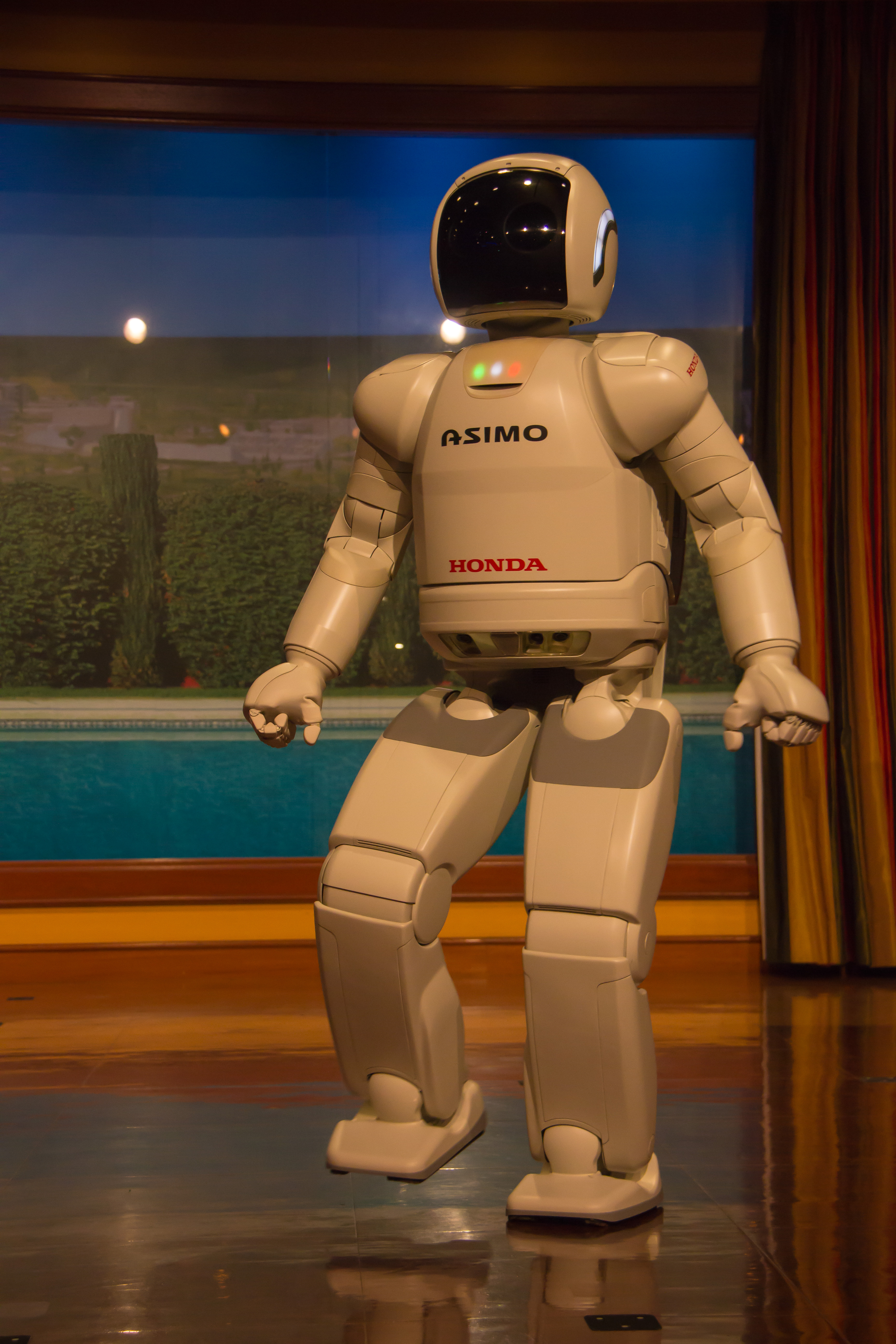 Photo by